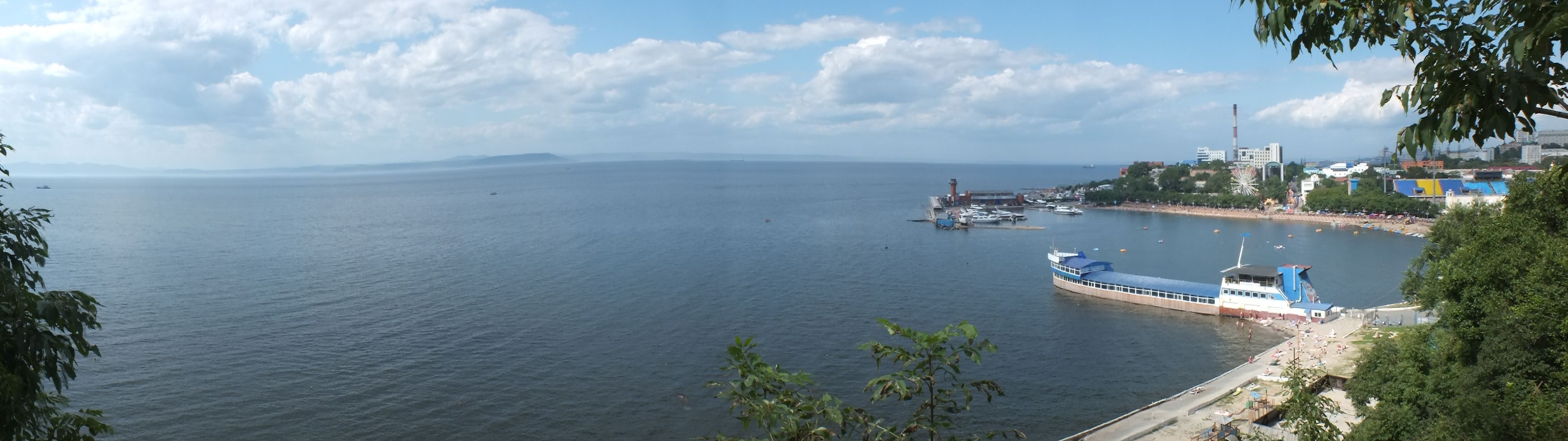 Vladivostok